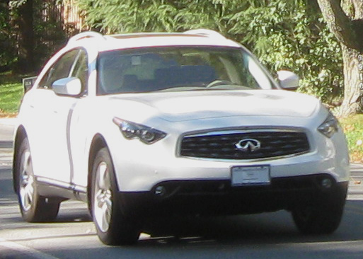 2009 Infiniti FX photographed in Kensington, Maryland, USA.